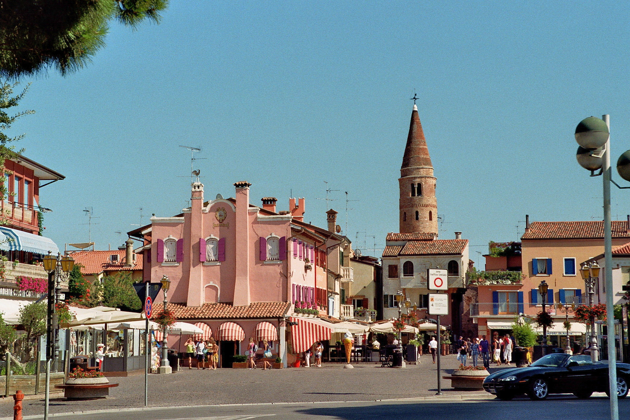 Old city of Caorle (Italy)